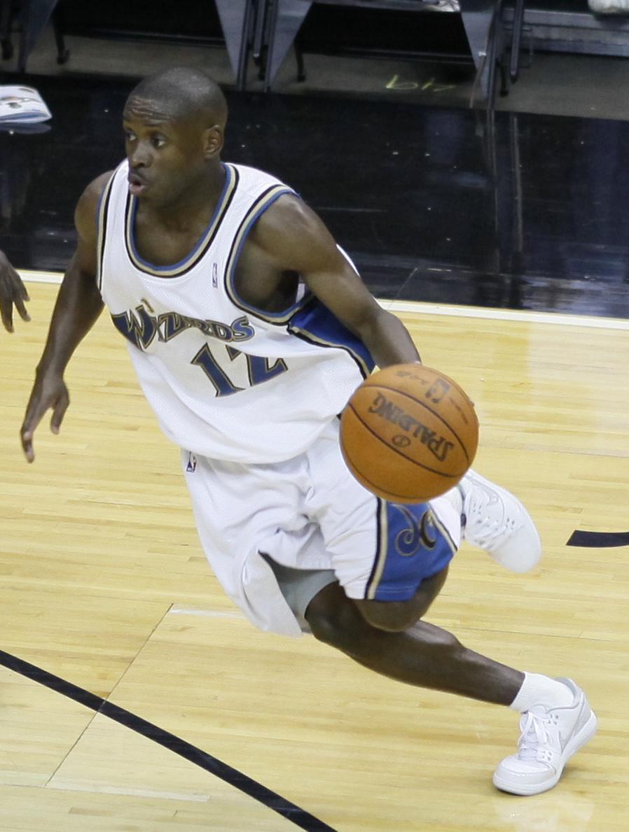 Earl Boykins playing with the Washington Wizards